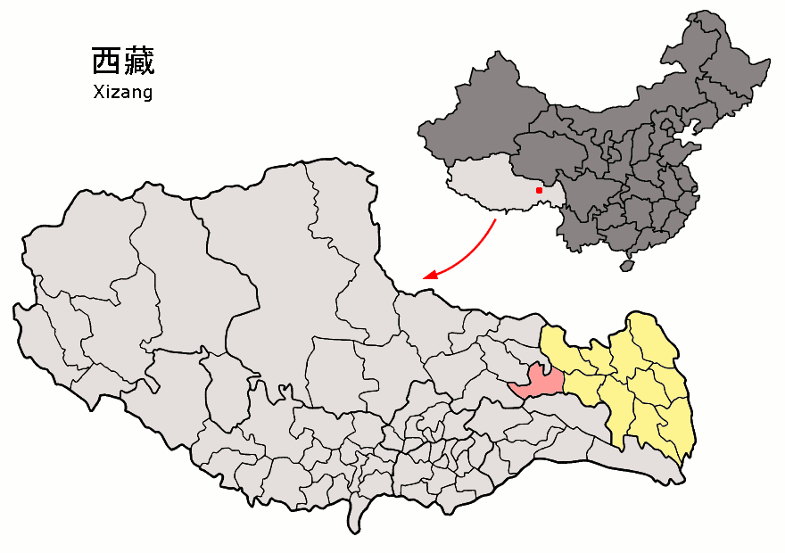 Location of Banbar County (pink) and Qamdo Prefecture (yellow) within Tibet (Xizang) autonomous region of China